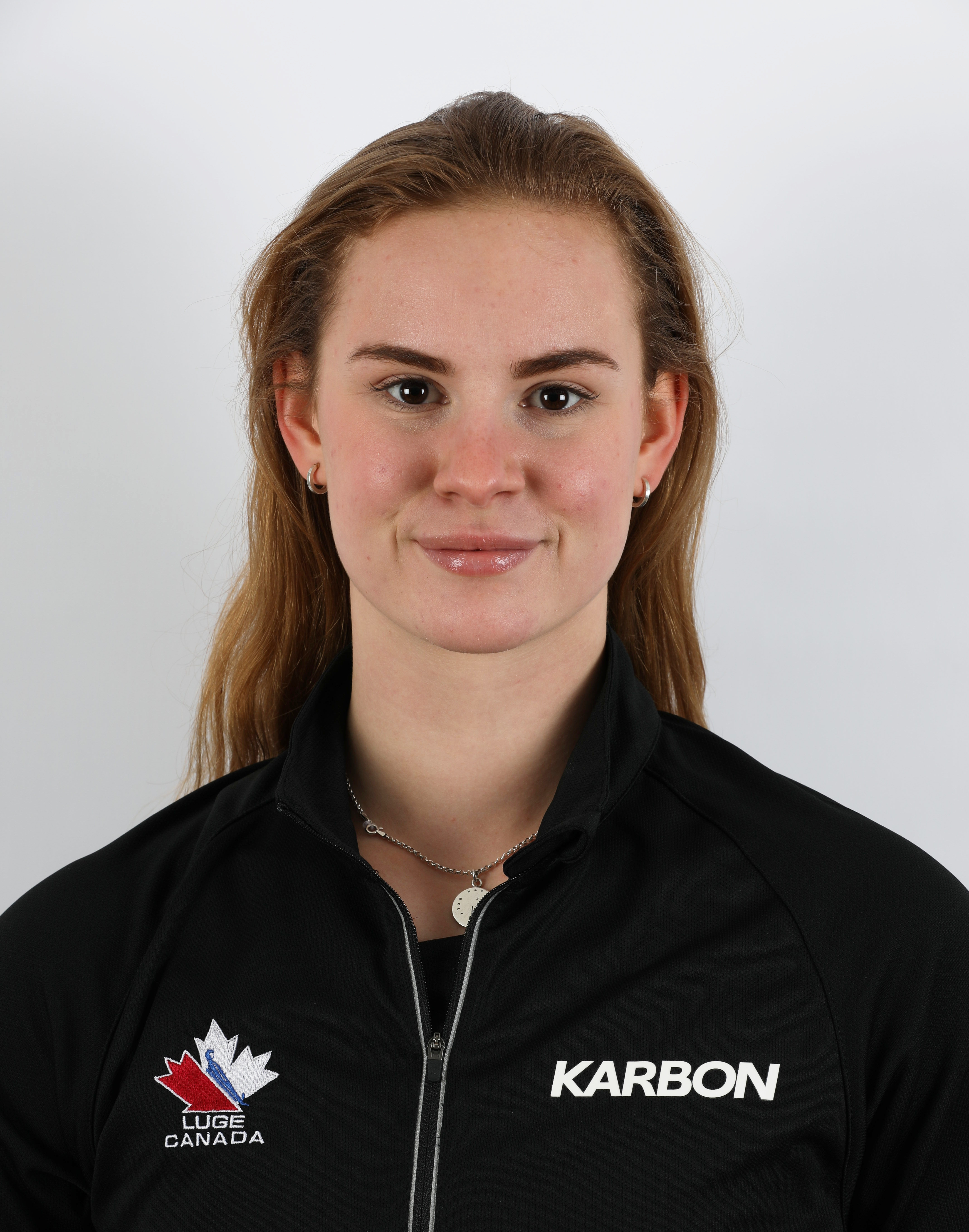 Athletes' photo project at the 2018/19 Innsbruck-Igls Luge World Cup: Brooke Apshkrum (Canada)